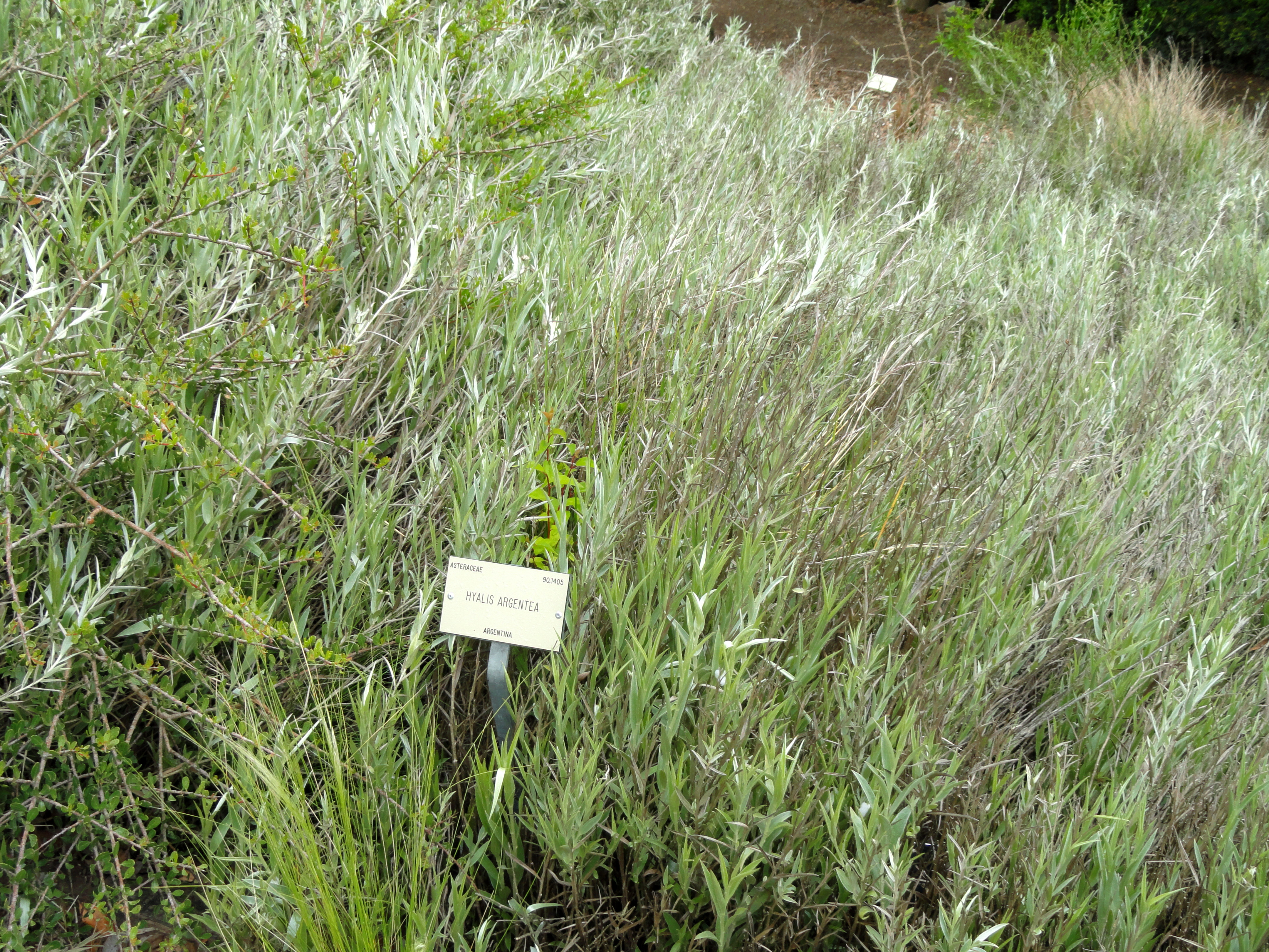 Hyalis argentea specimen in the University of California Botanical Garden, Berkeley, California, USA.